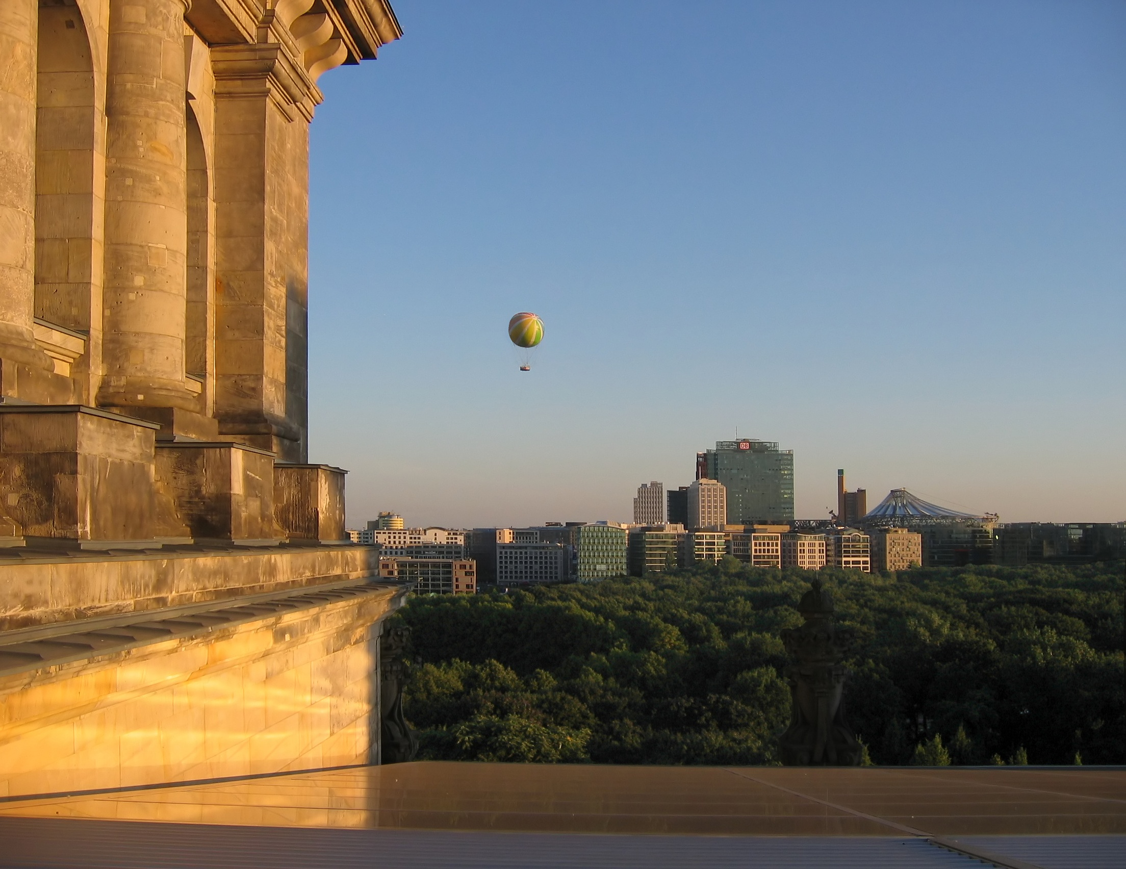 View south from the roof of the Reichstag towards Potsdamer Platz.